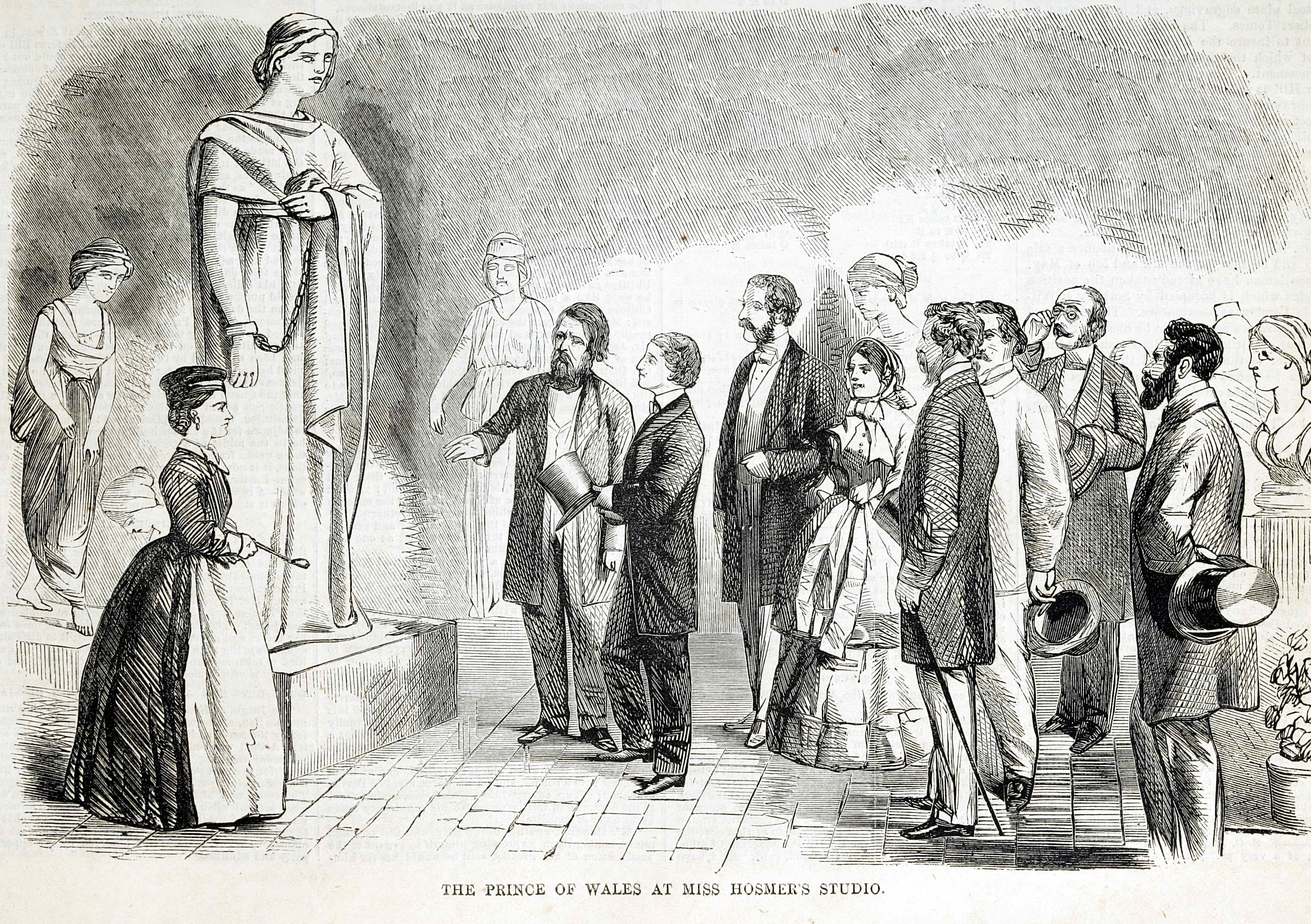 19c Illustration of Hosmer and the Prince of Wales